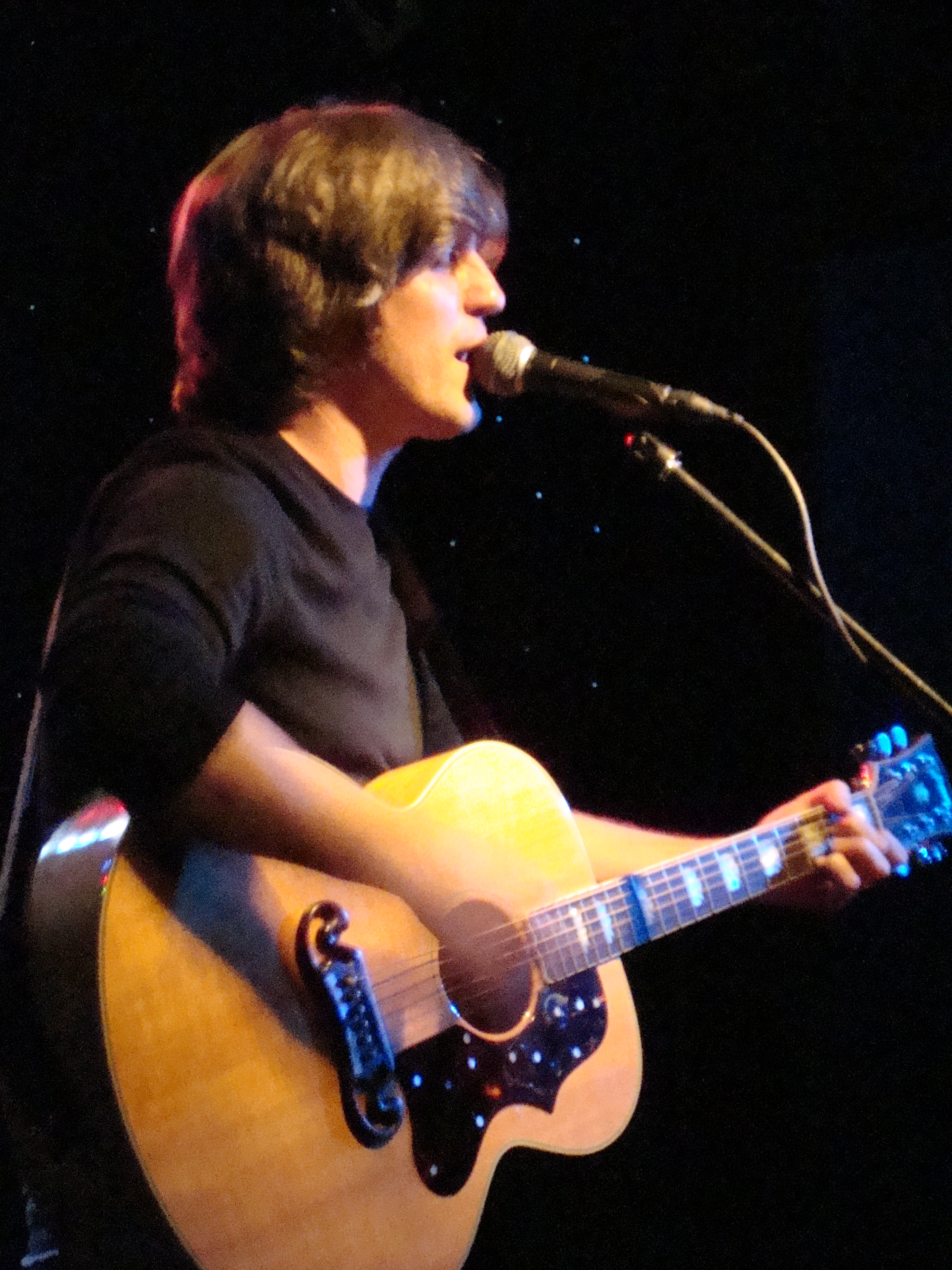 Bill Deasy performing at the Club Cafe in Pittsburgh, Pennsylvania; Dec. 26, 2008